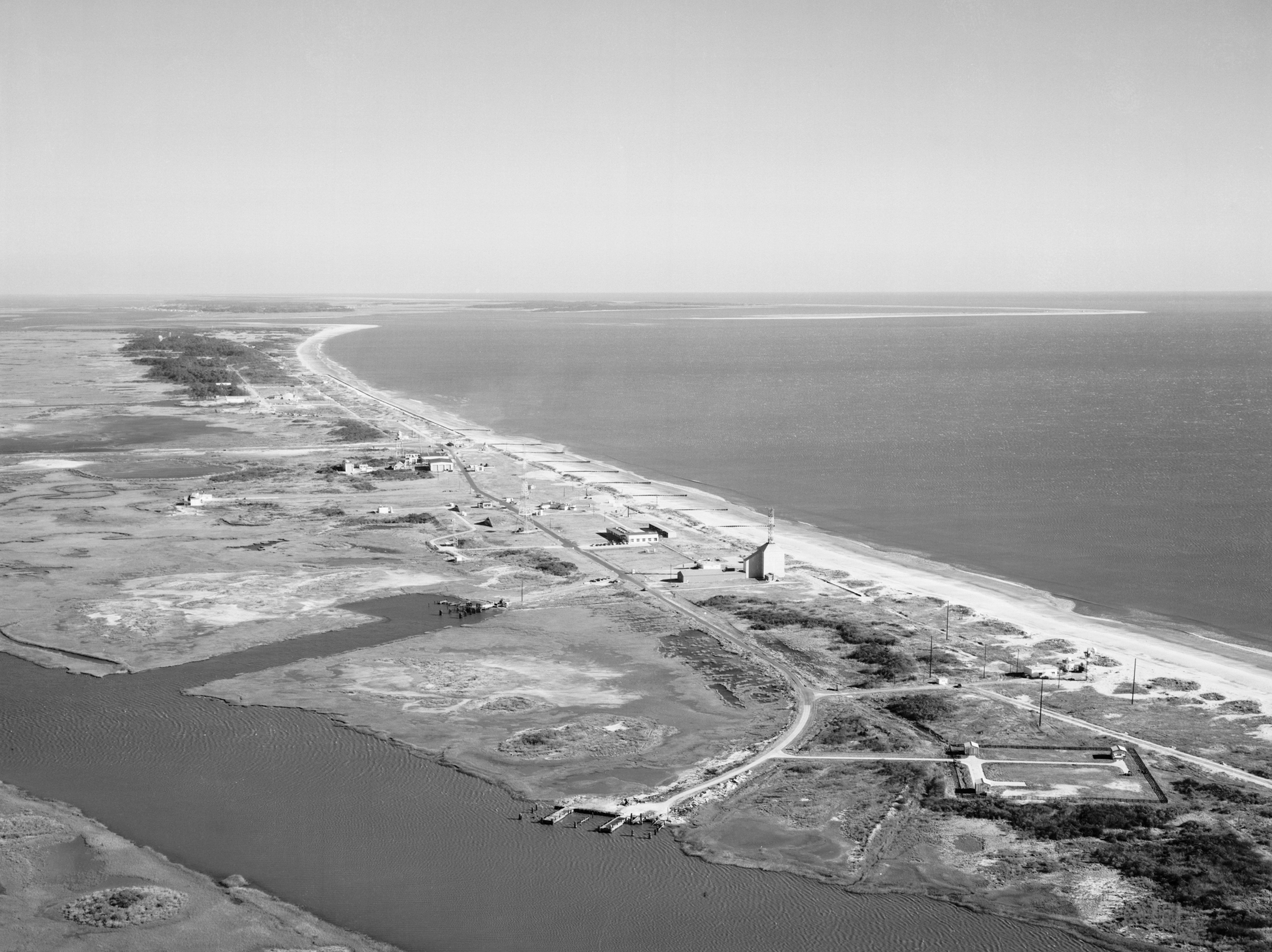 Aerial views of Wallops Island and Timber Groin Systems.